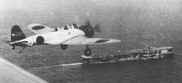 Japanese Type 97 carrier torpedo bomber (Nakajima B5N1) entering the landing pattern on aircraft carrier Soryu. Spring 1939.